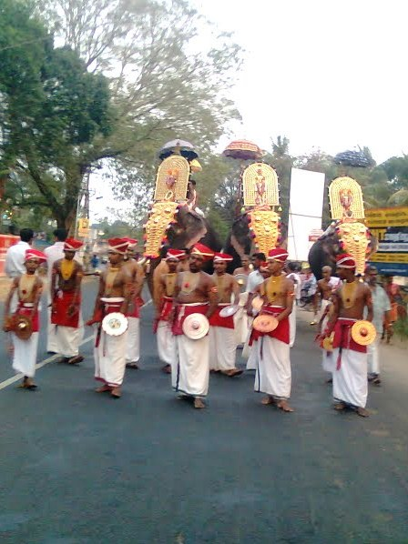 Vazhappally Festival:Arattu Procession & Velakali